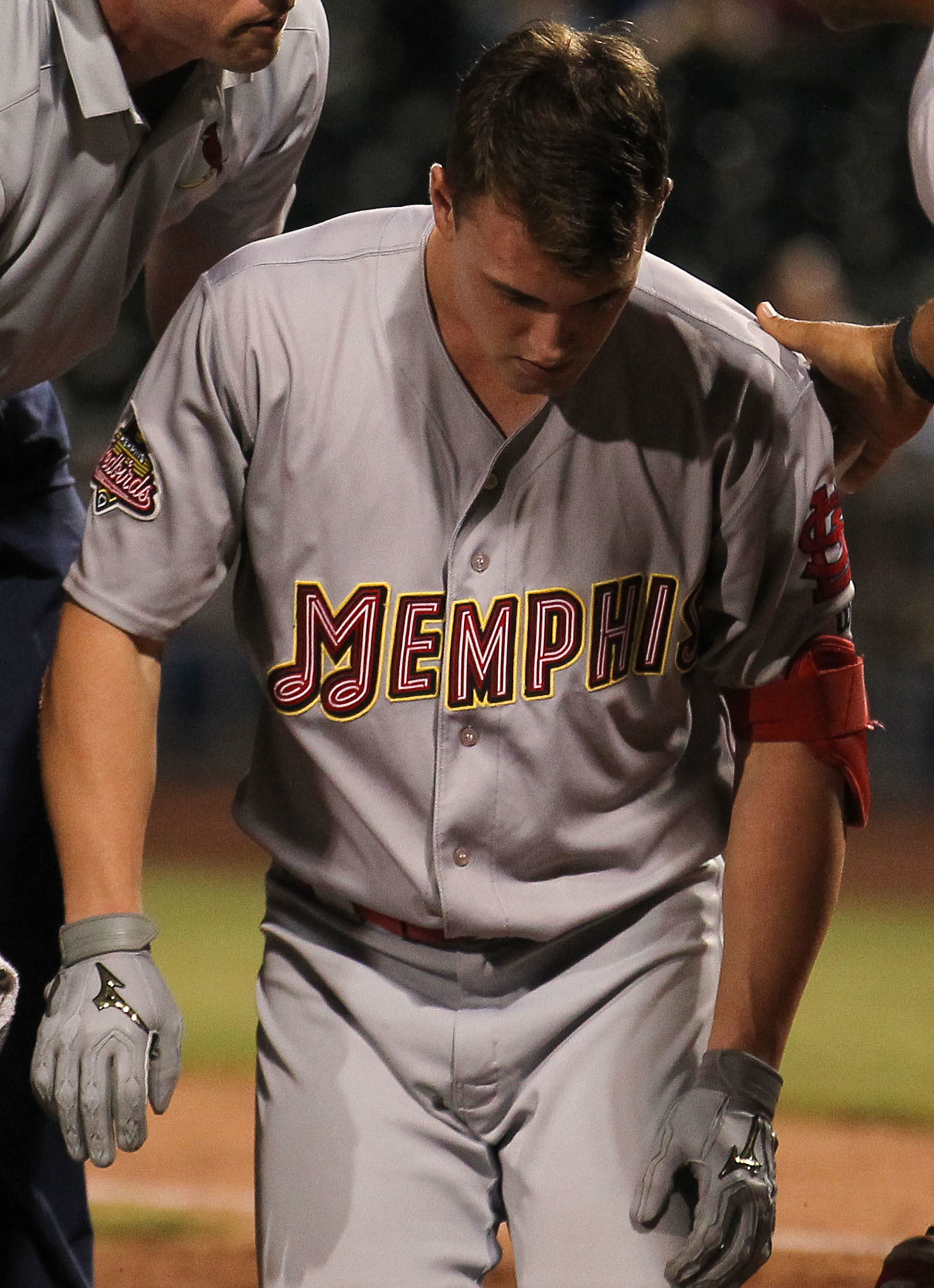 Coach Jobel Jimenez and a trainer tend to Lane Thomas of the Memphis Redbirds during a 2019 game at Werner Park in Nebraska